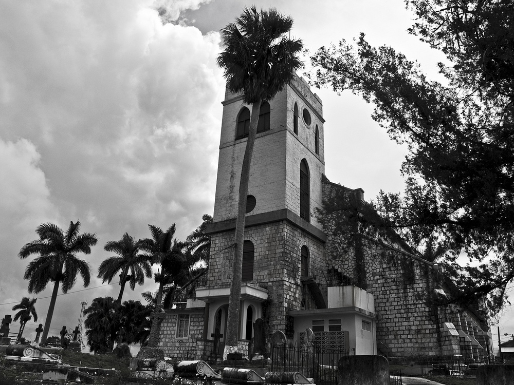 Mandeville Parish Church in Manchester Parish in Jamaica. Was the church of George Wilson Bridges Founded A.D. 1816